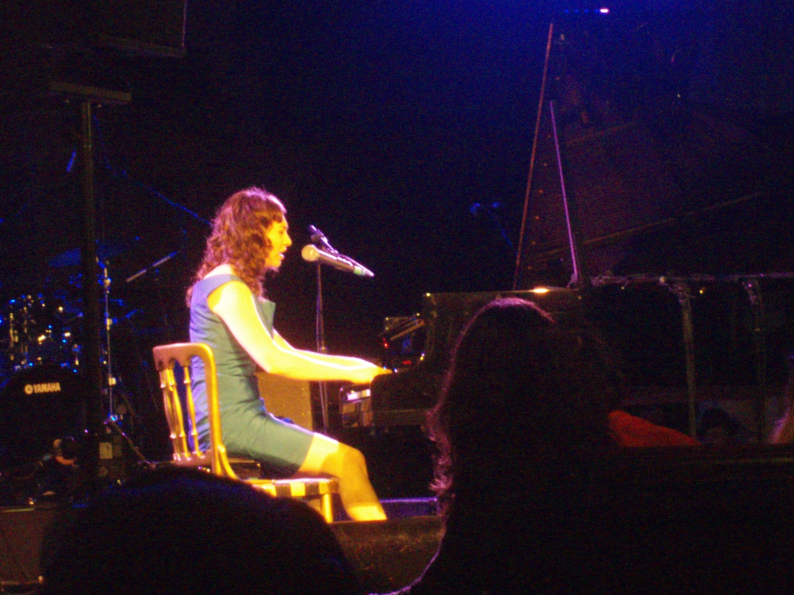 Regina Spektor playing in the West London Synagogue, February 2007.